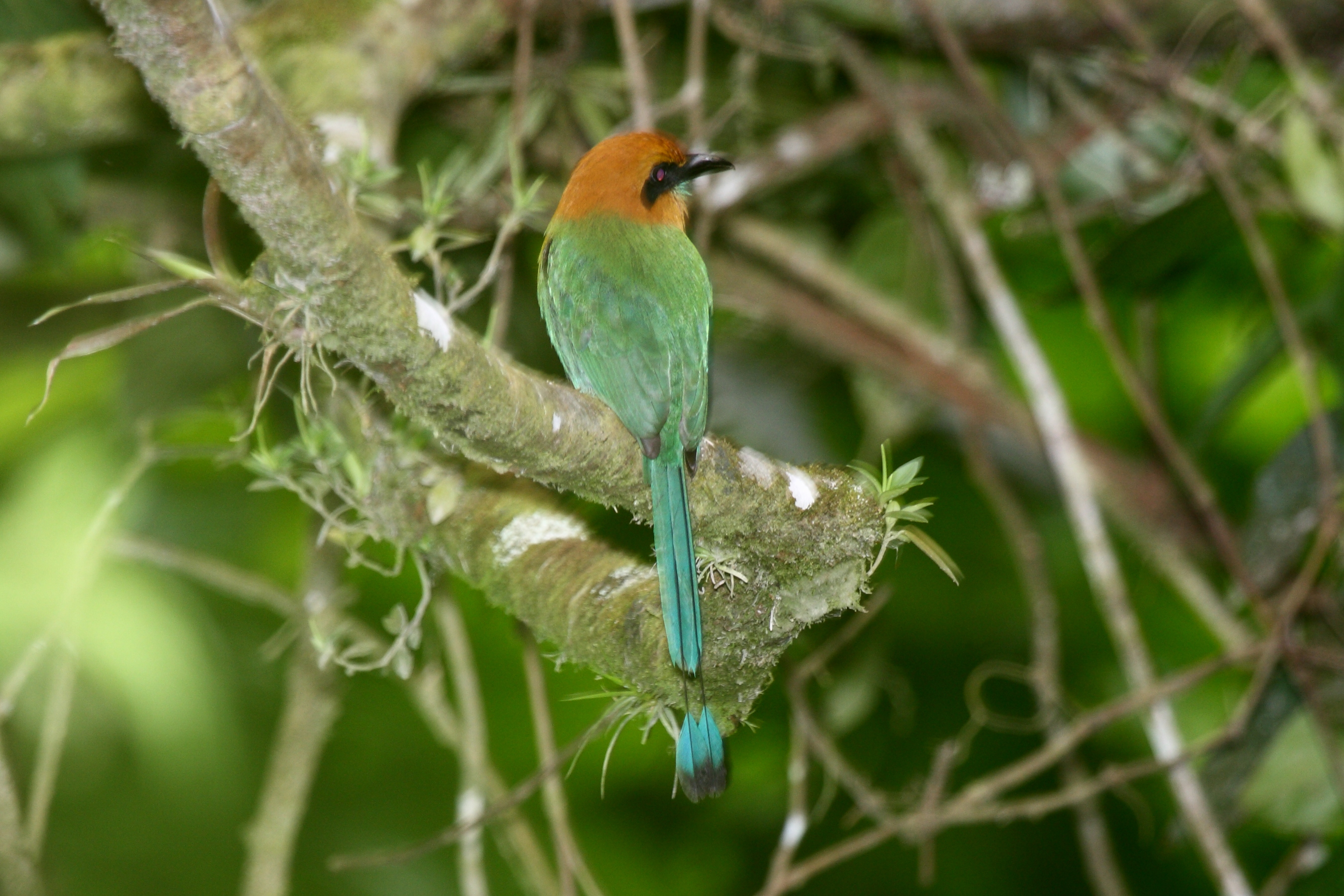 A Rufous Motmot in Panama.